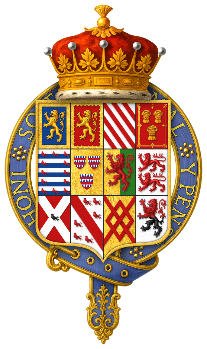 Quartered arms of Sir Gilbert Talbot, 7th Earl of Shrewsbury, KG Quartering based on the arms in the Talbot window in the Long Gallery, at Haddon Hall (Bakewell, Derbyshire)